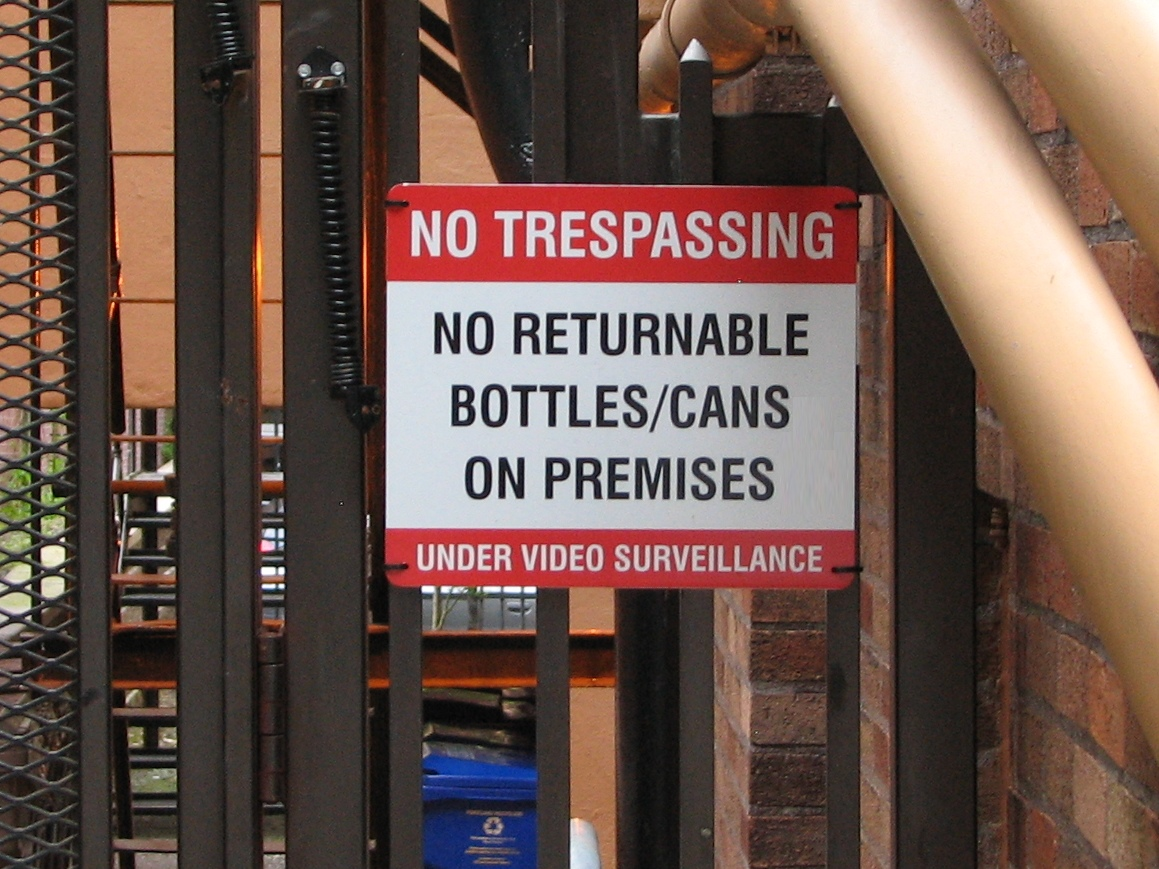 A signage at the southwest corner of the Jeanne Manor Apartment Building in Portland, Oregon that reads No Returnable Bottles/Cans on Premises" indicating that they don't keep containers with Oregon Bottle Bill deposit value bearing containers on the property.